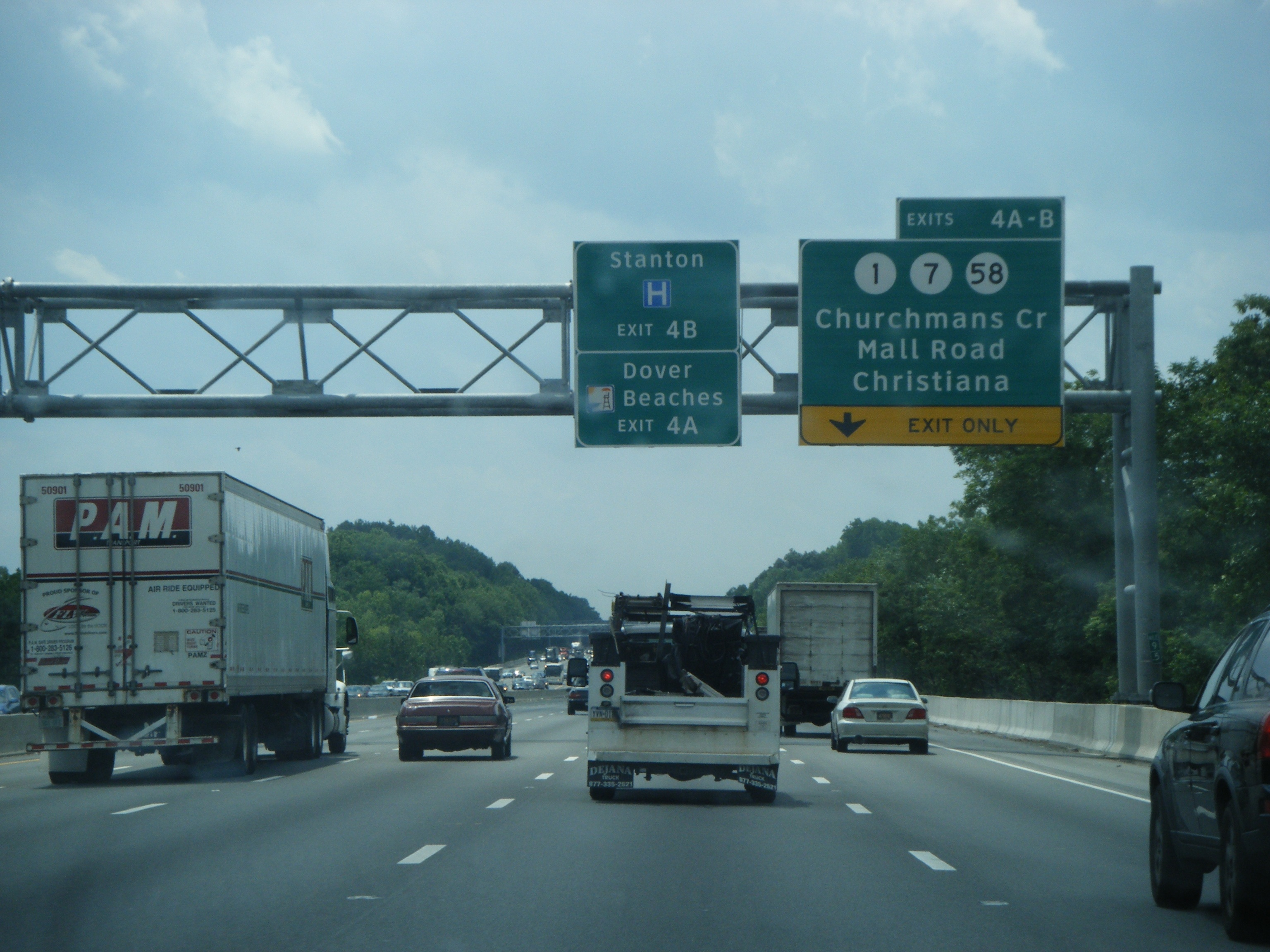 Southbound Interstate 95 (Delaware Turnpike) approaching the exits for Delaware Route 1/Delaware Route 7/Delaware Route 58 (exit 4) in Christiana, Delaware.